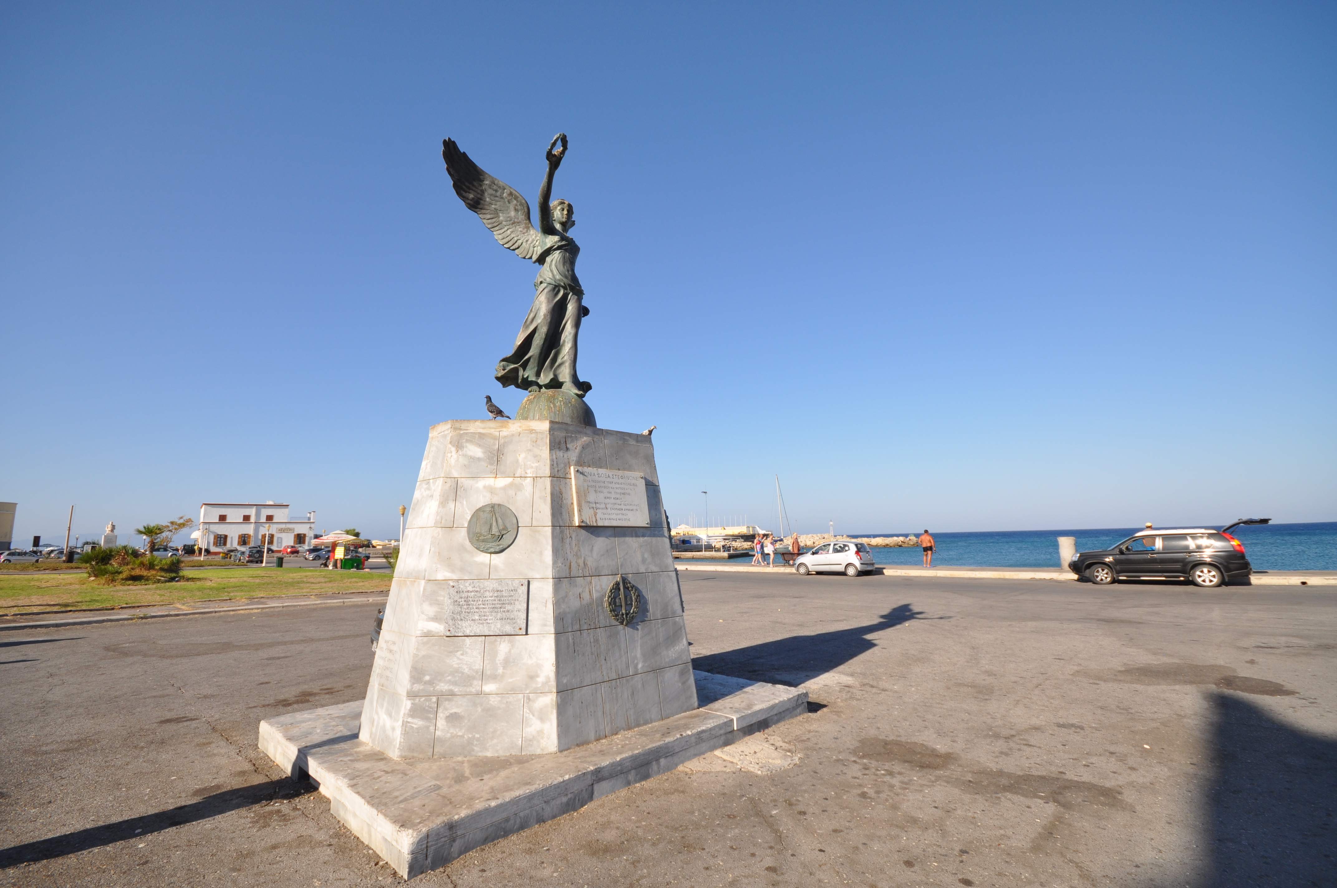 Memorial to the Greek, British and French naval and special forces who fought in the Aegean for the liberation of the Greek islands in 1943-1945